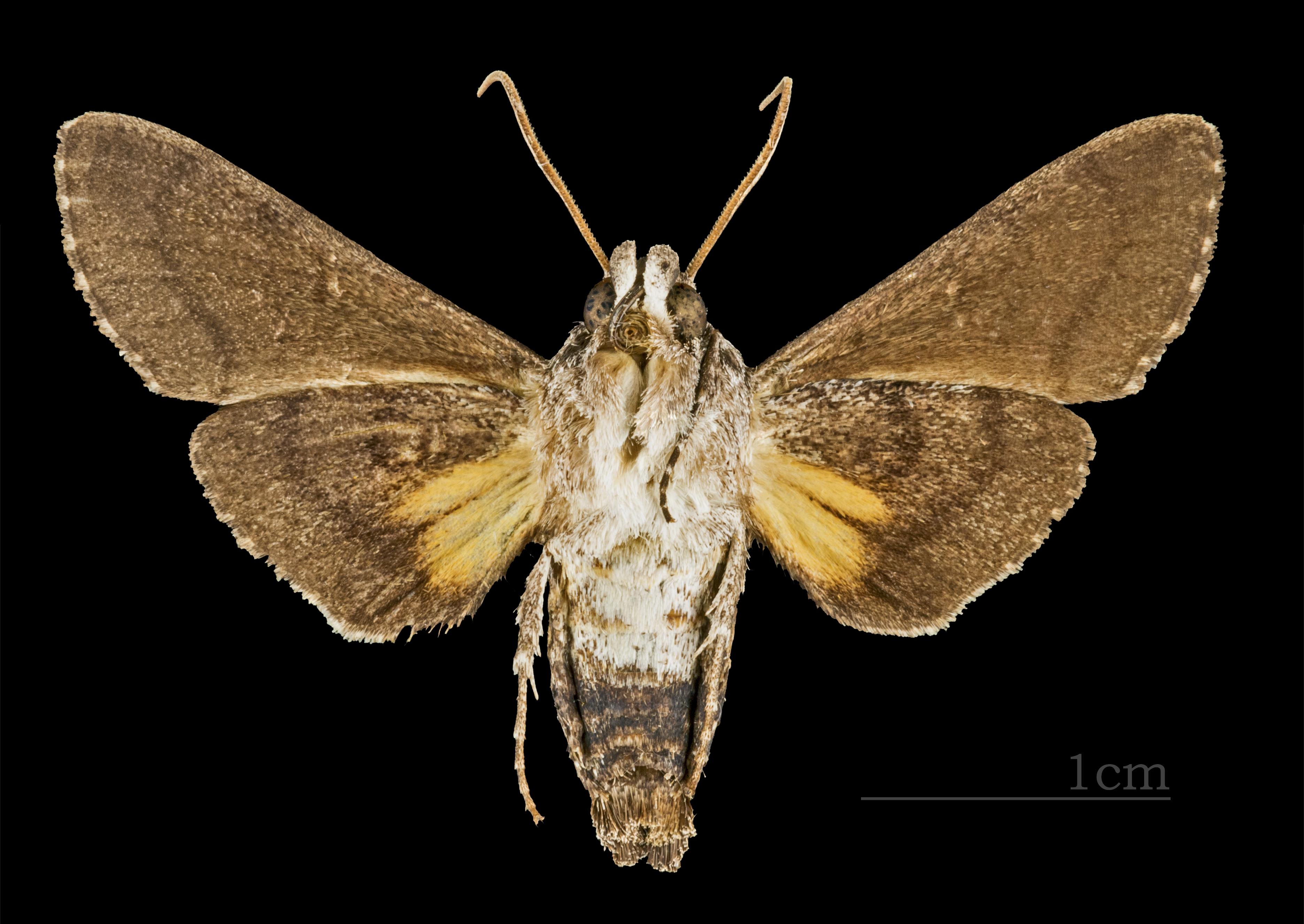 Cautethia yucatana - △ Ventral side Collection of the Mathematician Laurent Schwartz